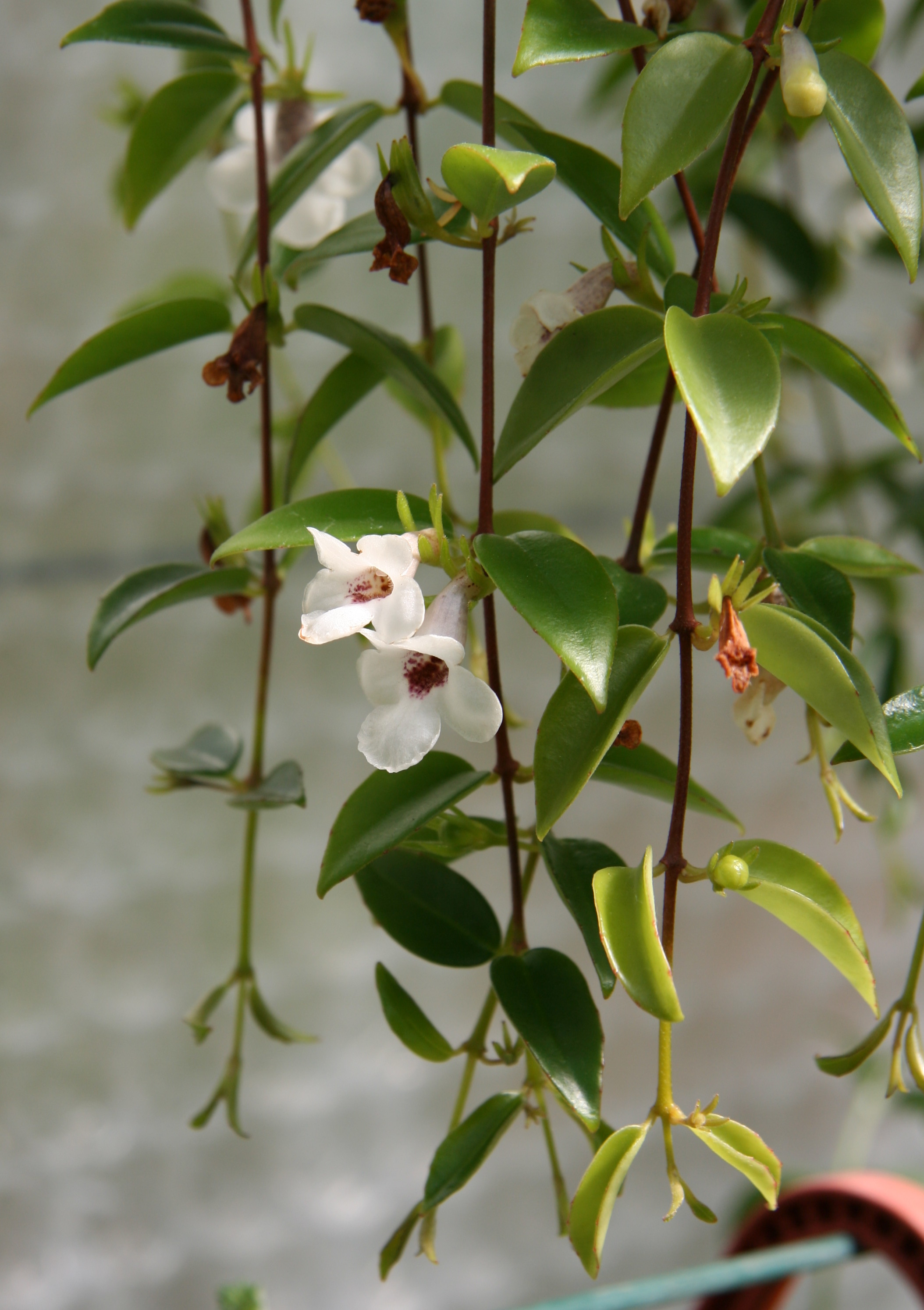 Codonanthe gracilis